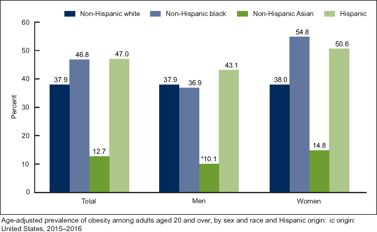 Prevalence of Obesity Among US Adults in 2015-2016 broken out by race.